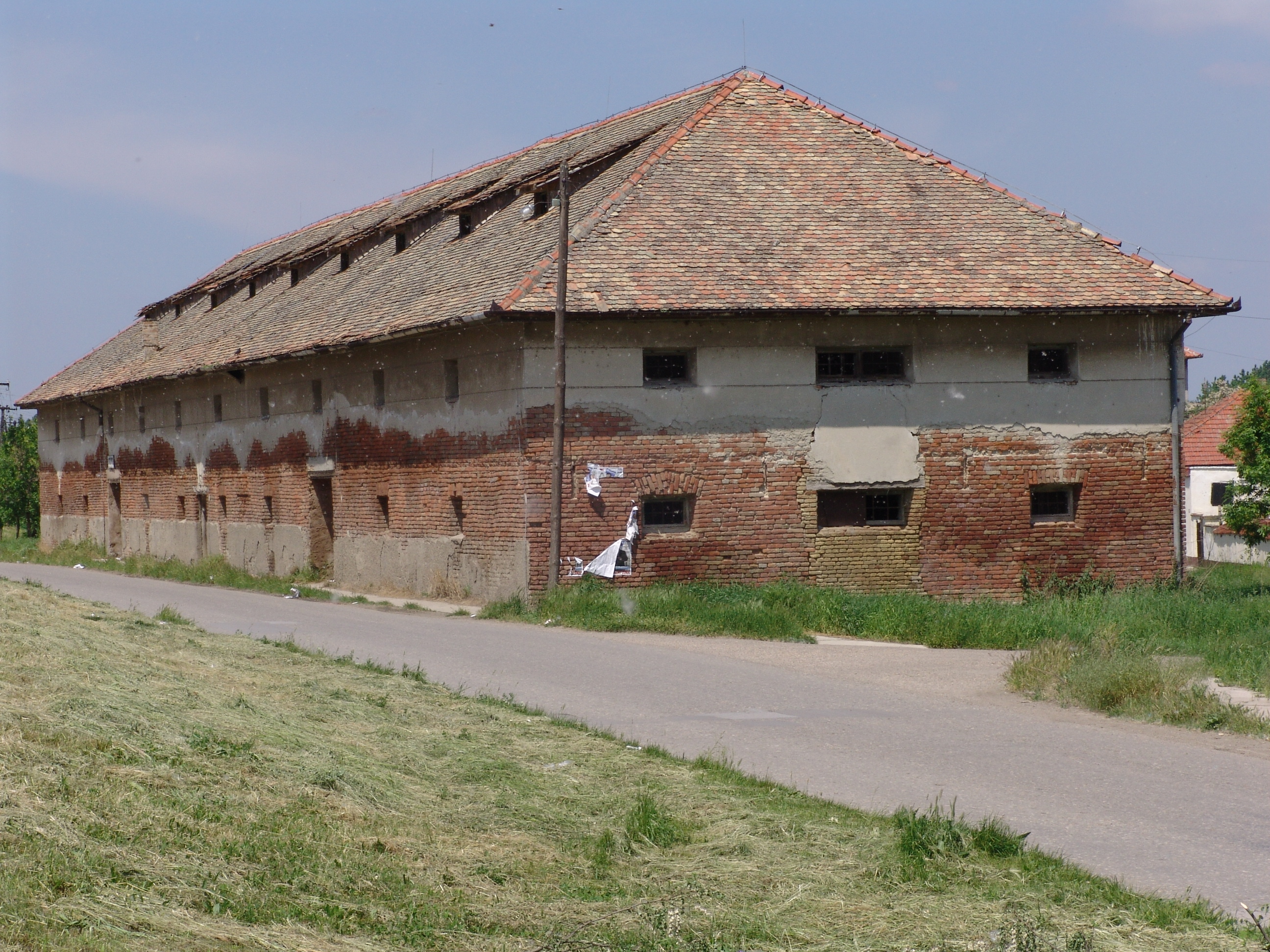 Wheat warehouse in Novi Bečej